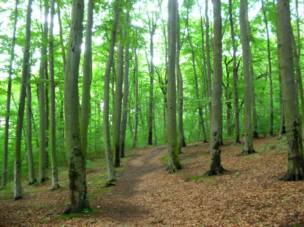 Nature reserve Las Mariański